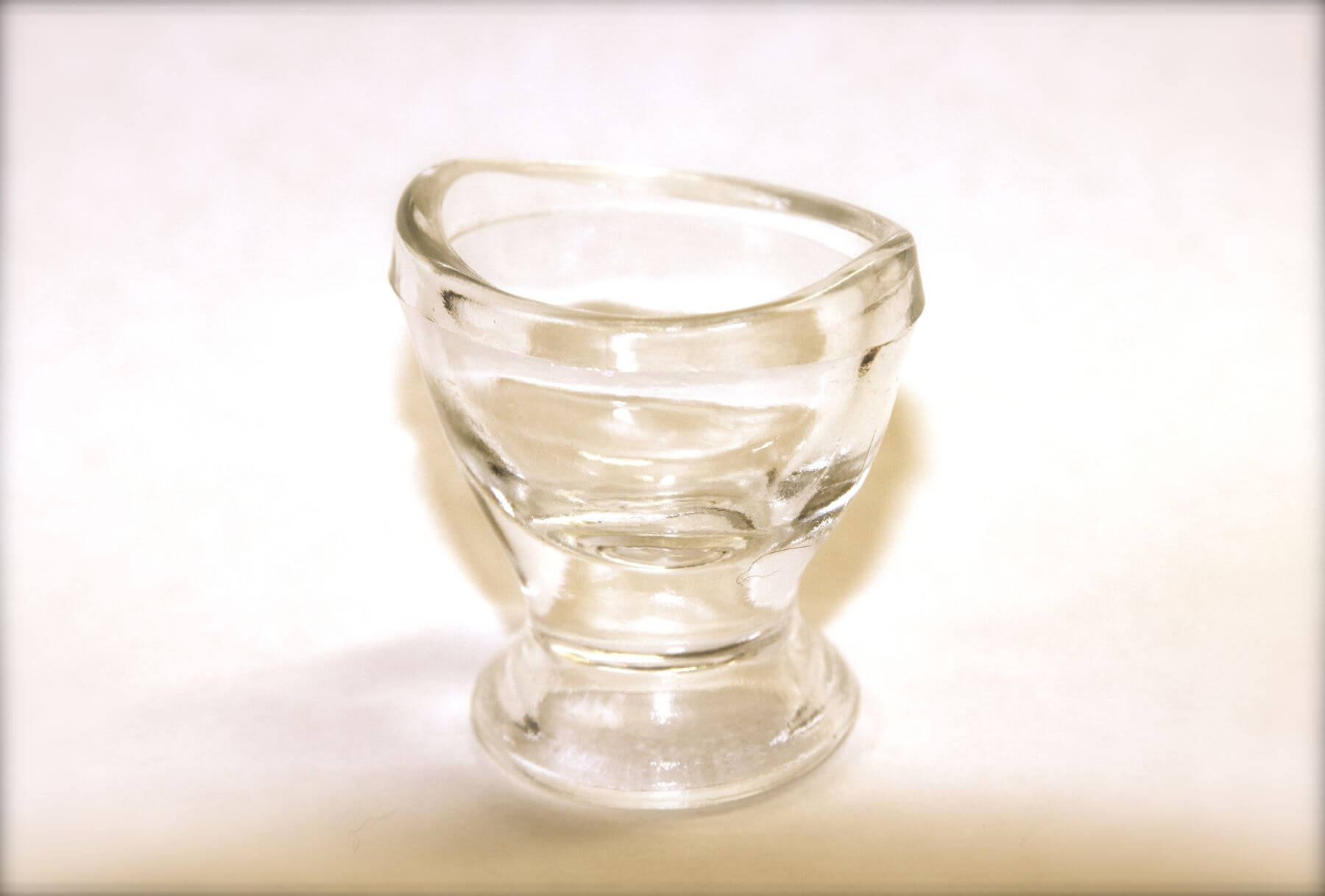 Glass eye bath